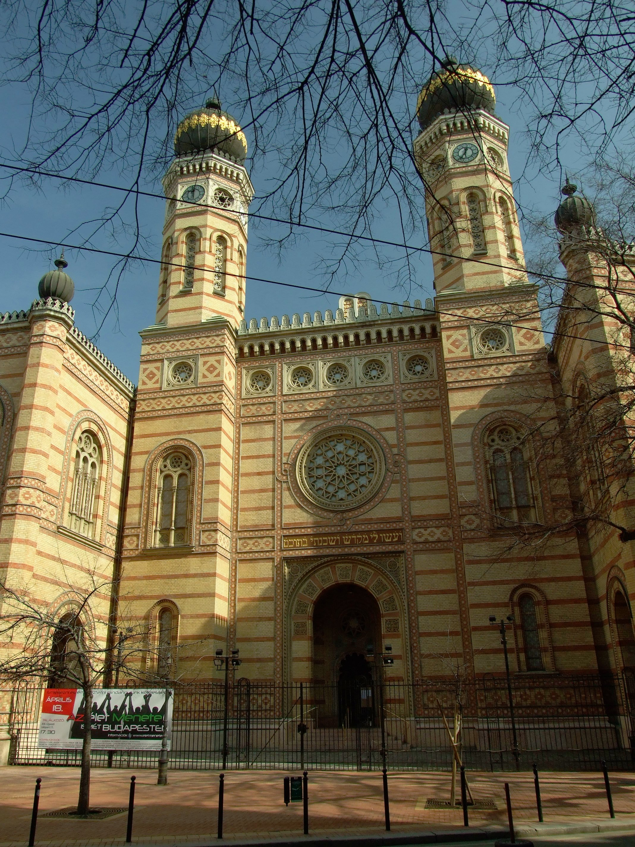 Front side of the great synagogue on Dohányi utca street in Budapest, Hungary